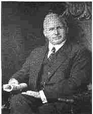 Photo of Dr. Benedict Lust